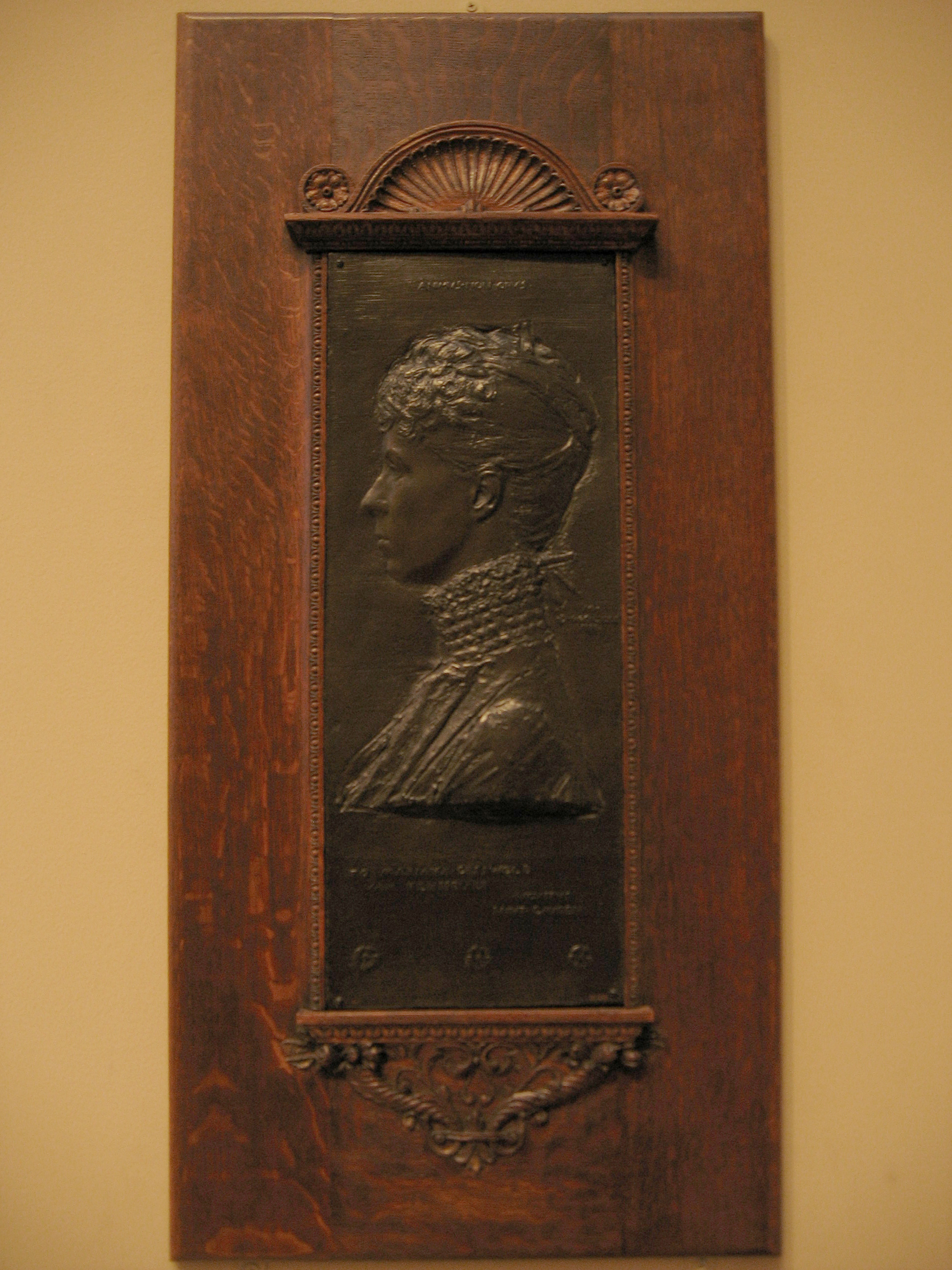 Mrs. Schuler Van Rensselaer (Mariana Griswold), 1888; this cast 1890. Augustus Saint-Gaudens (1848 - 1907). Bronze, Metropolitan Museum of Art, New York City.